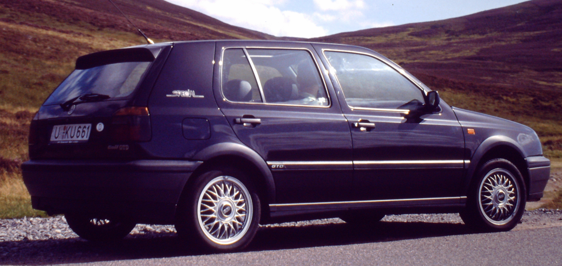 VW Golf III GTD